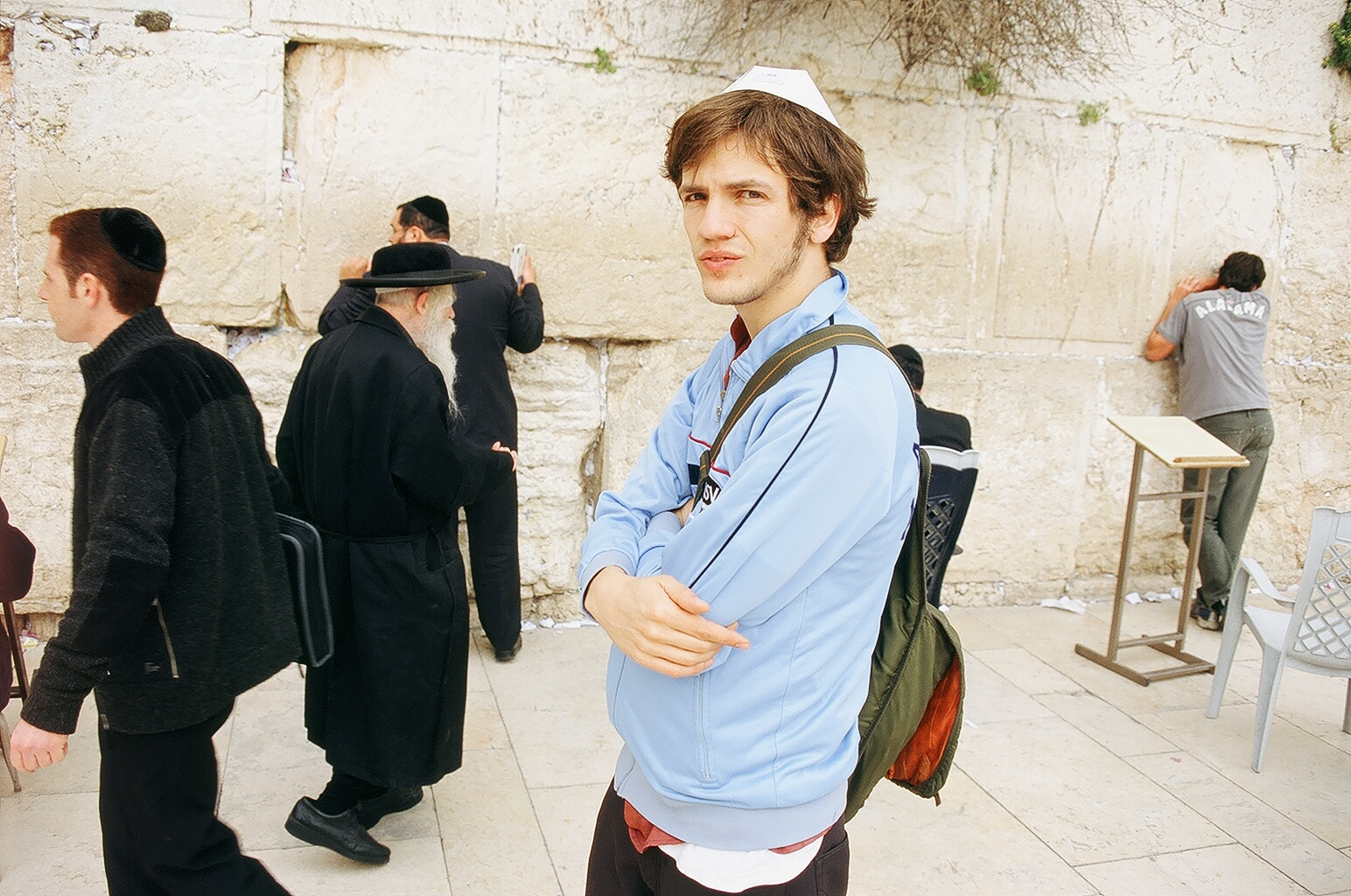 Jews at the Western Wall , Jerusalem 2005 - 4th day (24 March 2005) photo number 030